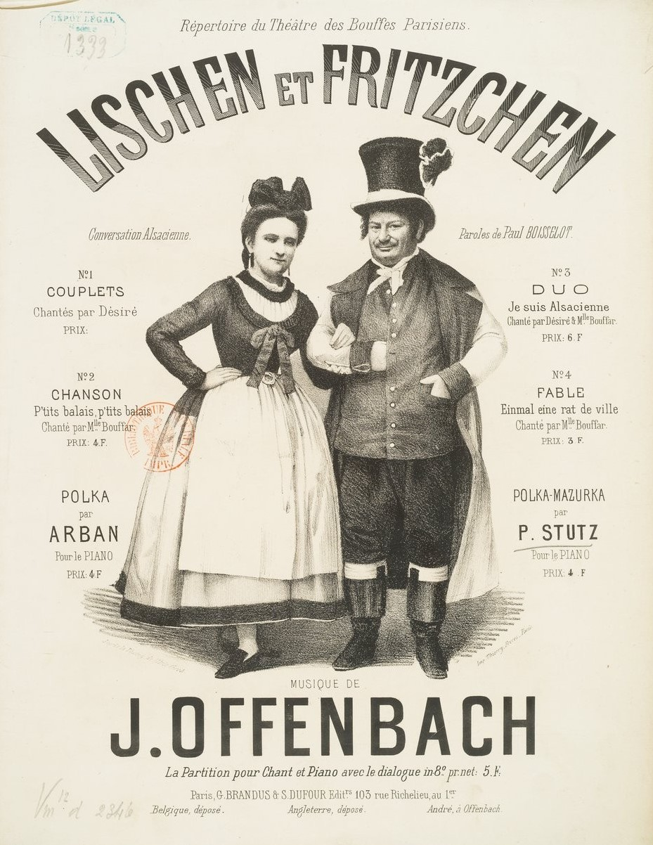 A collection of pieces from Jacques Offenbach's operetta 'Lischen et Fritzchen', title page of partition with engraving